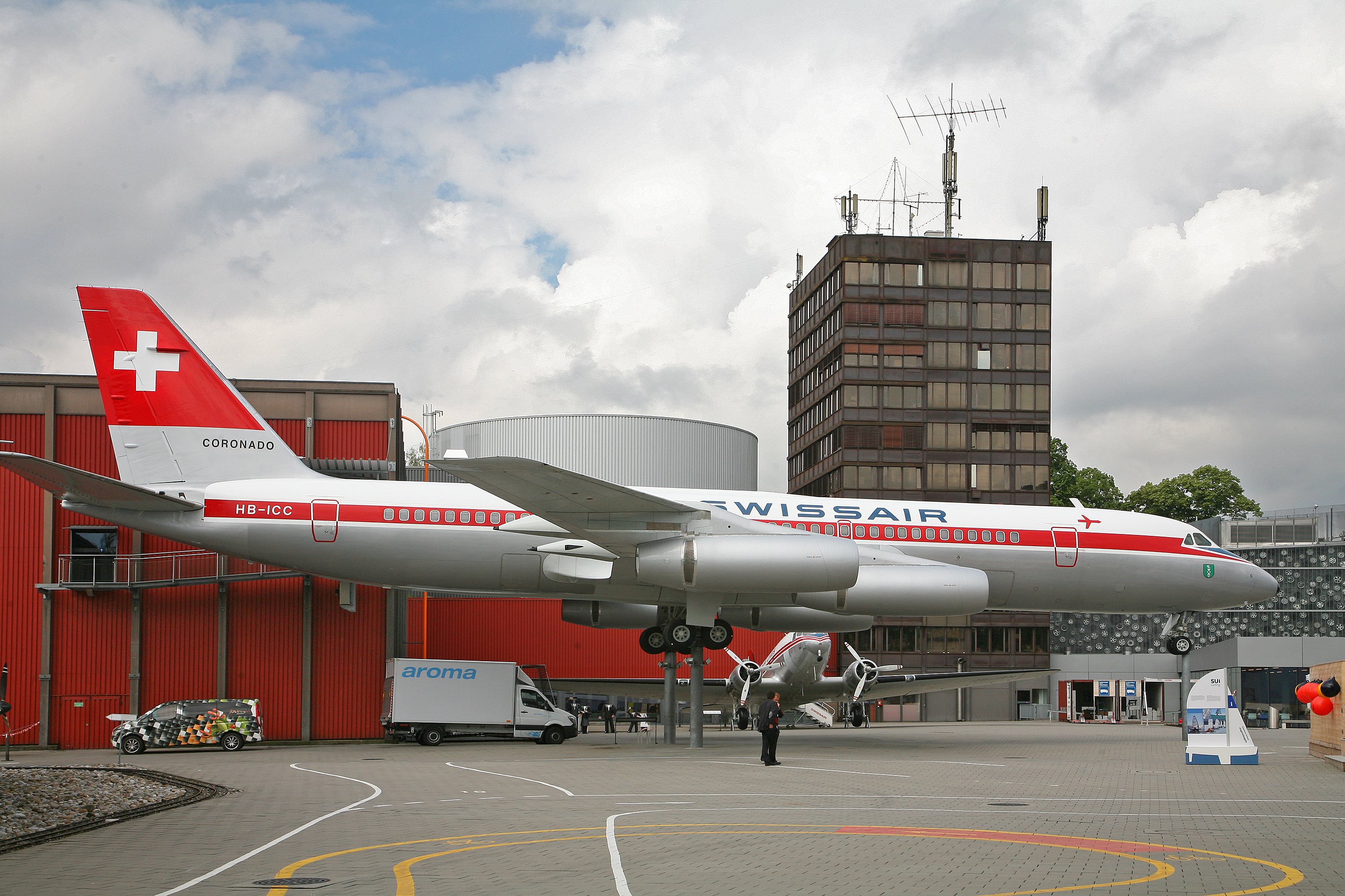 The Swiss Transport Museum in Lucerne shows locomotives, cars, ships and airplanes.